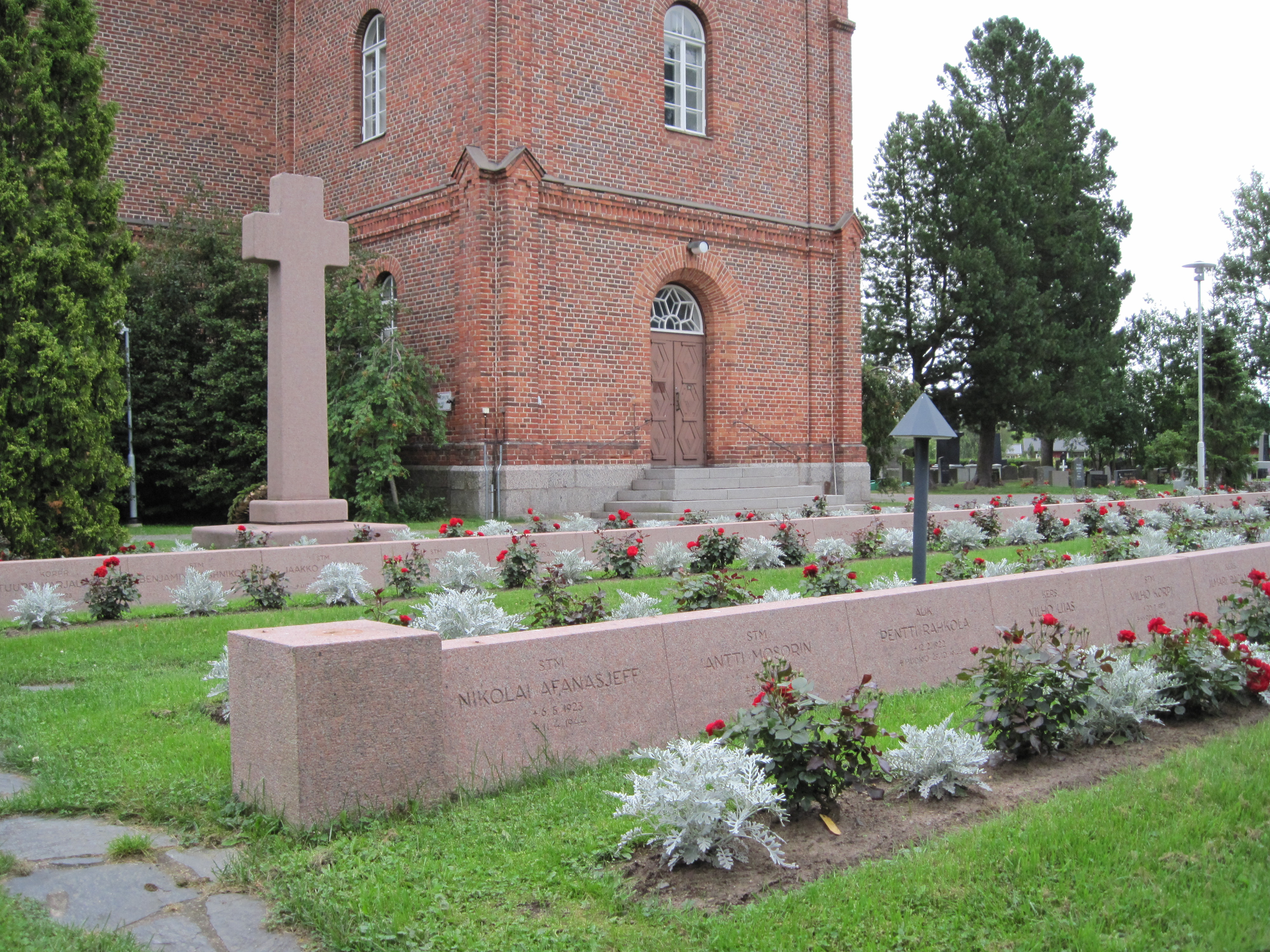 Military cemetary at Kalajoki church in Kalajoki, Finland